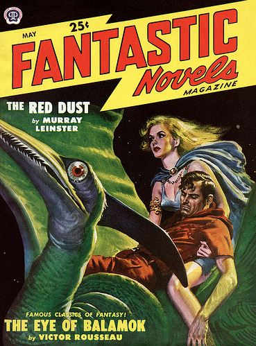 Cover of the May 1949 issue of Fantastic Novels magazine. Fantastic Novels Volume 3 No. 1, May 1949 Cover art by Lawrence Sterne Stevens Edited by Mary Gnaedinger Contents: The Eye of Balamok - Victor Rousseau The Red Dust - Murray Leinster Devil Ritter - Max Brand